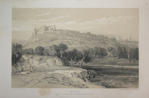 Lithography of Melfi